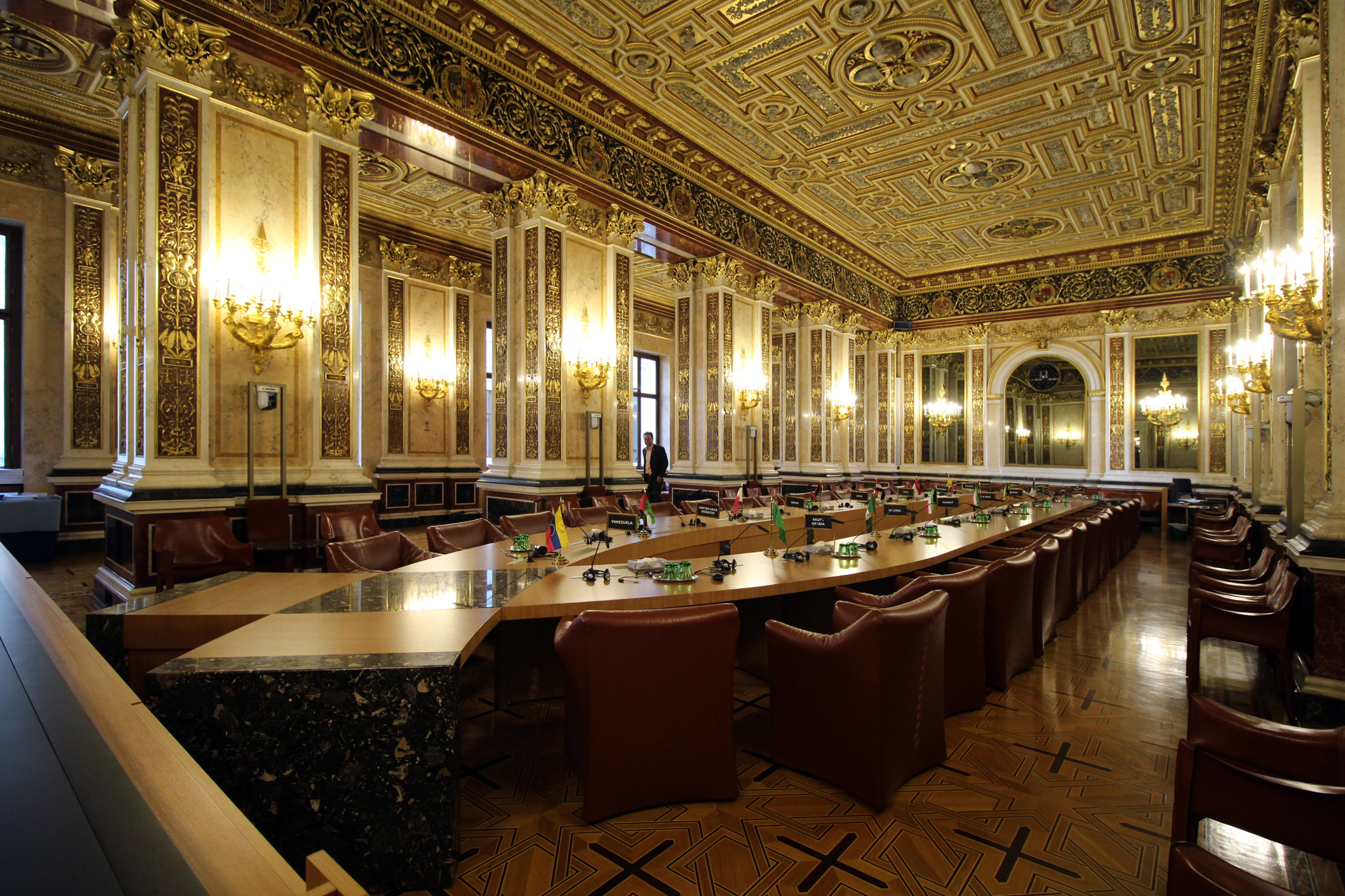 Deutschmeisterpalais/Palais Erzherzog Wilhelm, OFID Dieses Bild wurde anlässlich des österreichischen Tags des Denkmals 2014 in Wien eingereicht.